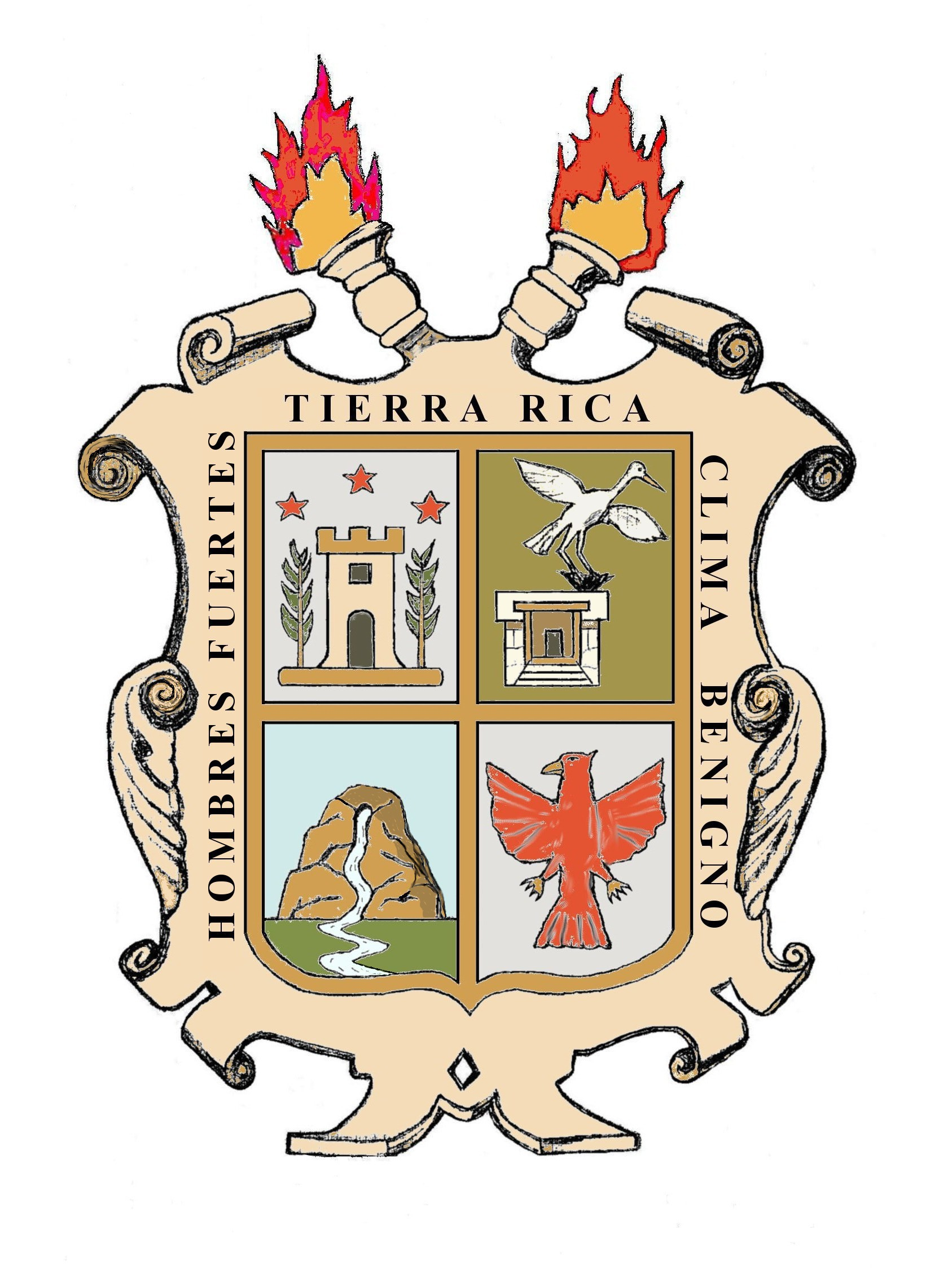 Saltillo coat-arms, Coahuila, Mexico